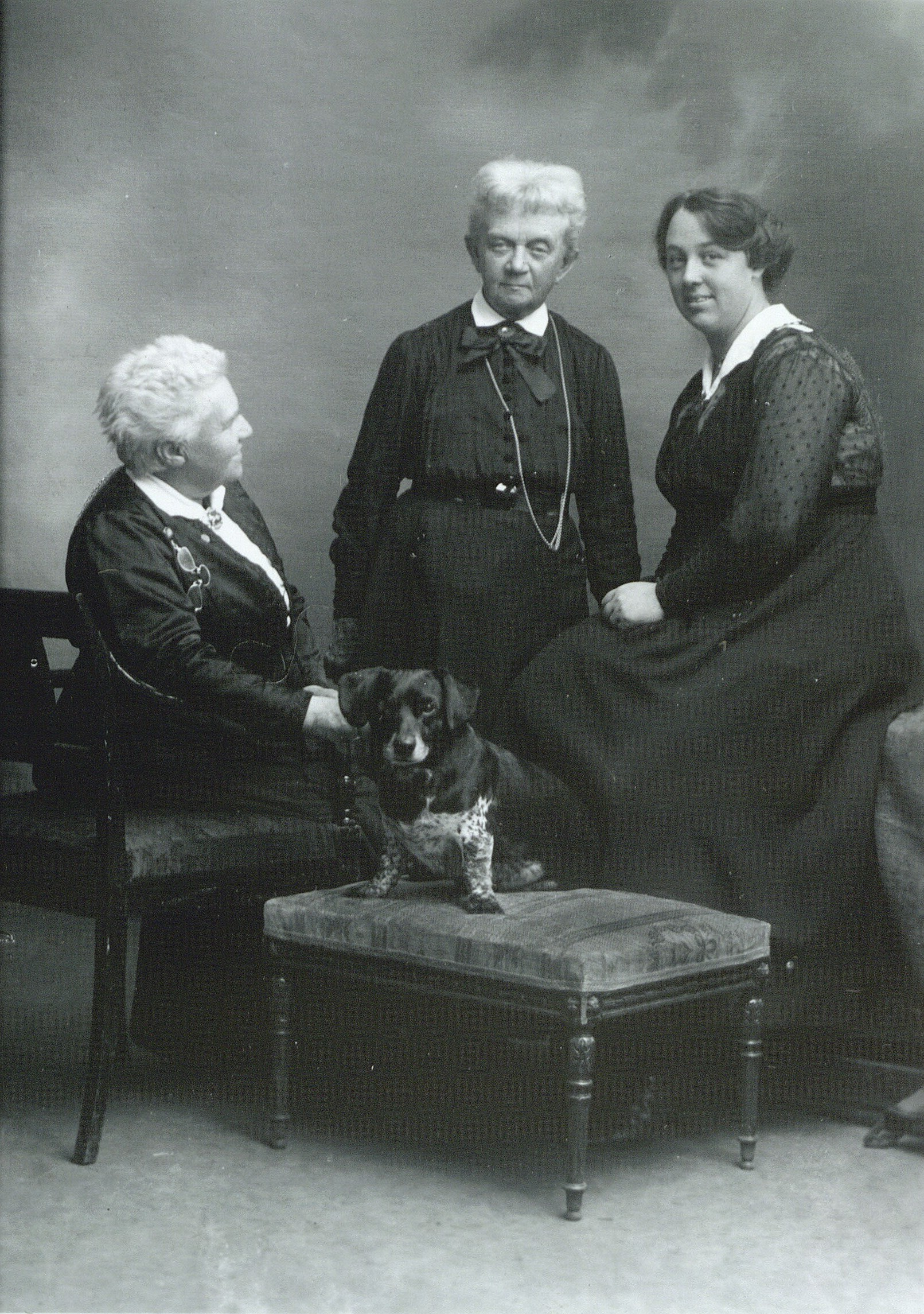 Marie Luplau, Emilie Mundt and their adopted daughter Clara Mundt Luplau - cropped